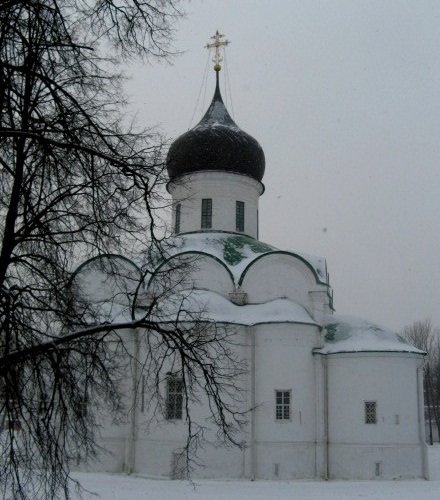 Svyato-Uspensky Monastery in Alexandrovskaya Sloboda. Trinity Church.